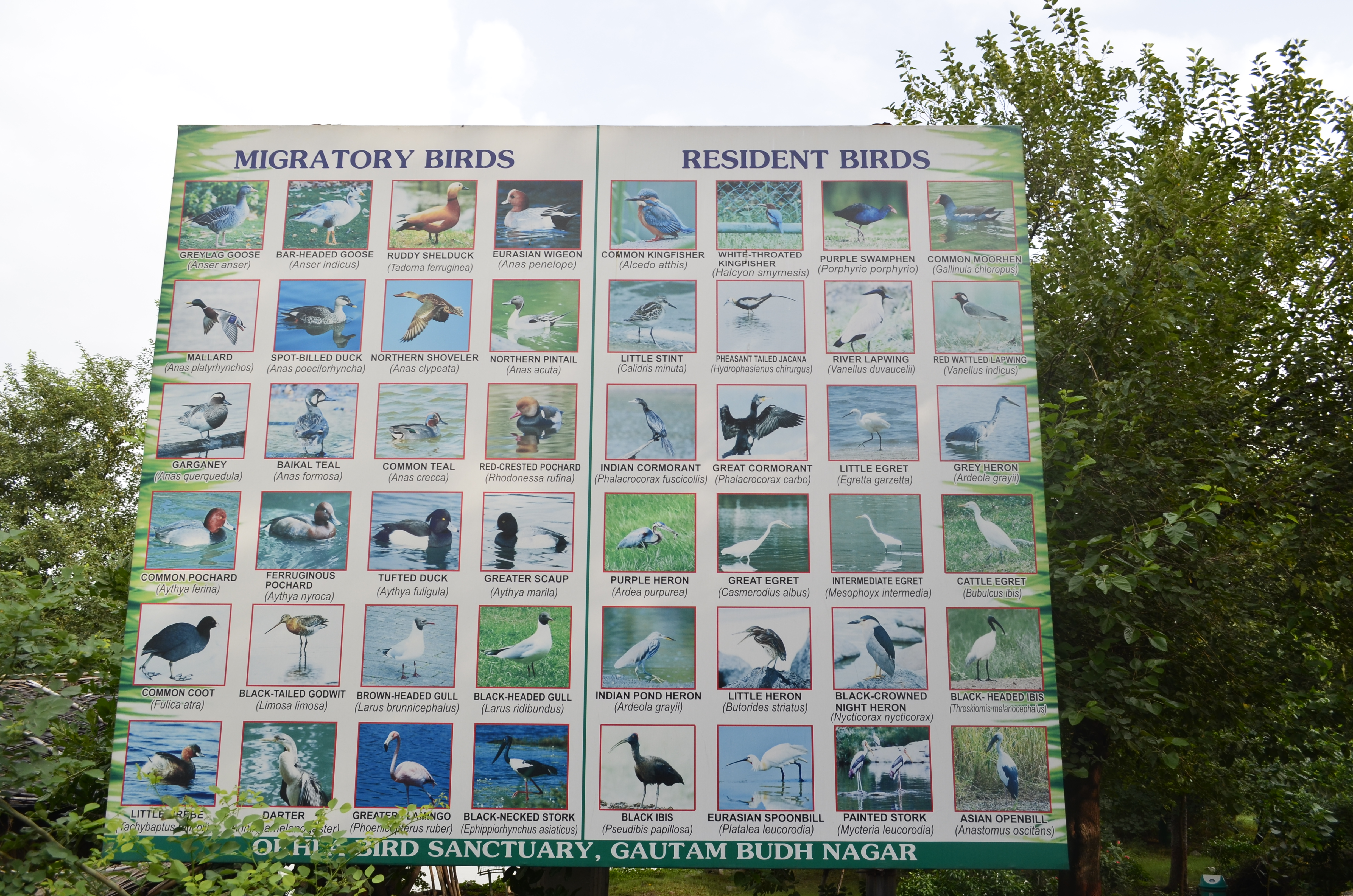 List of Birds can be tracked in the Okhla Bird Sanctuary